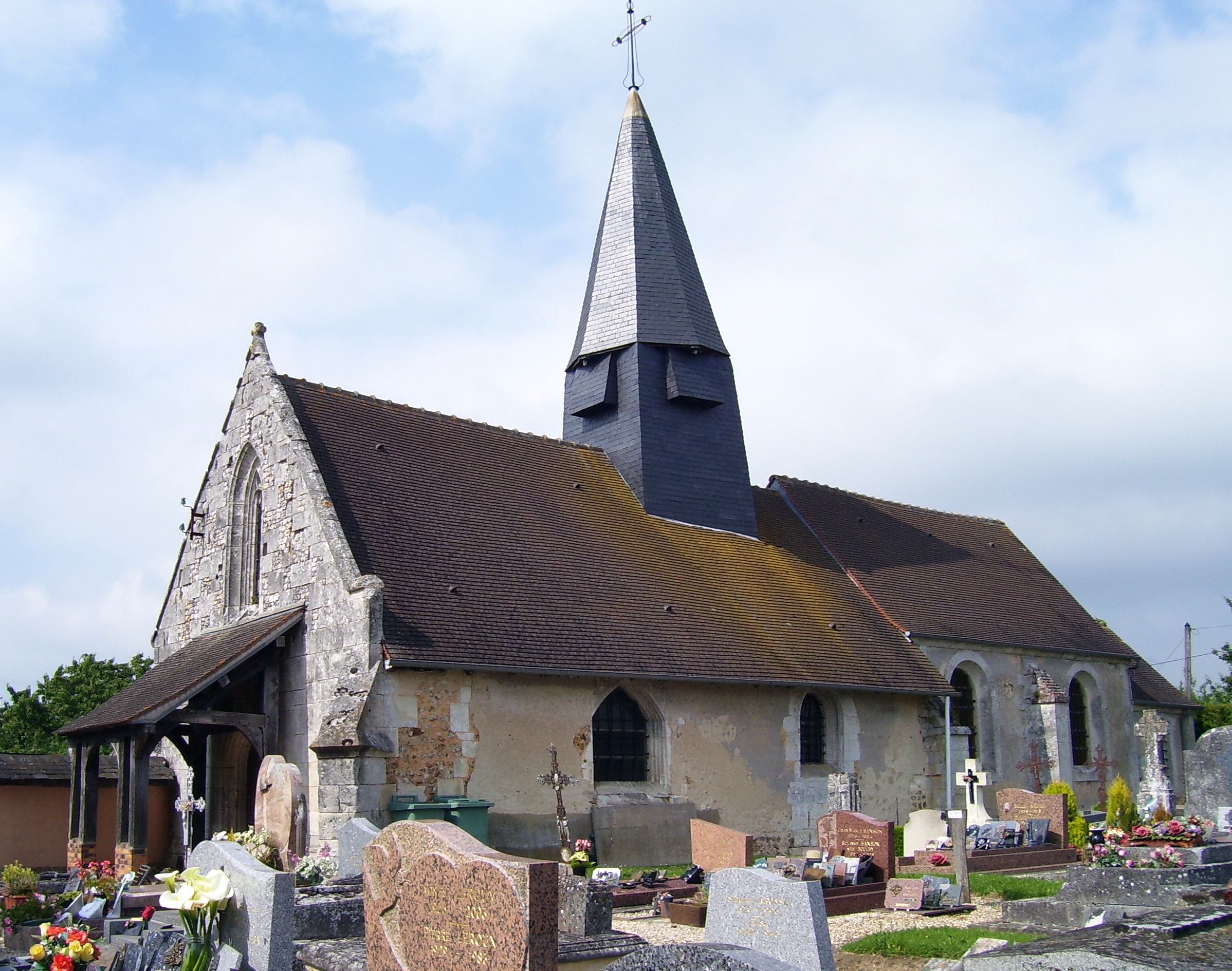 The Church Notre-Dame in Franqueville (Eure), France, was partially reconstructed in the 16th century.